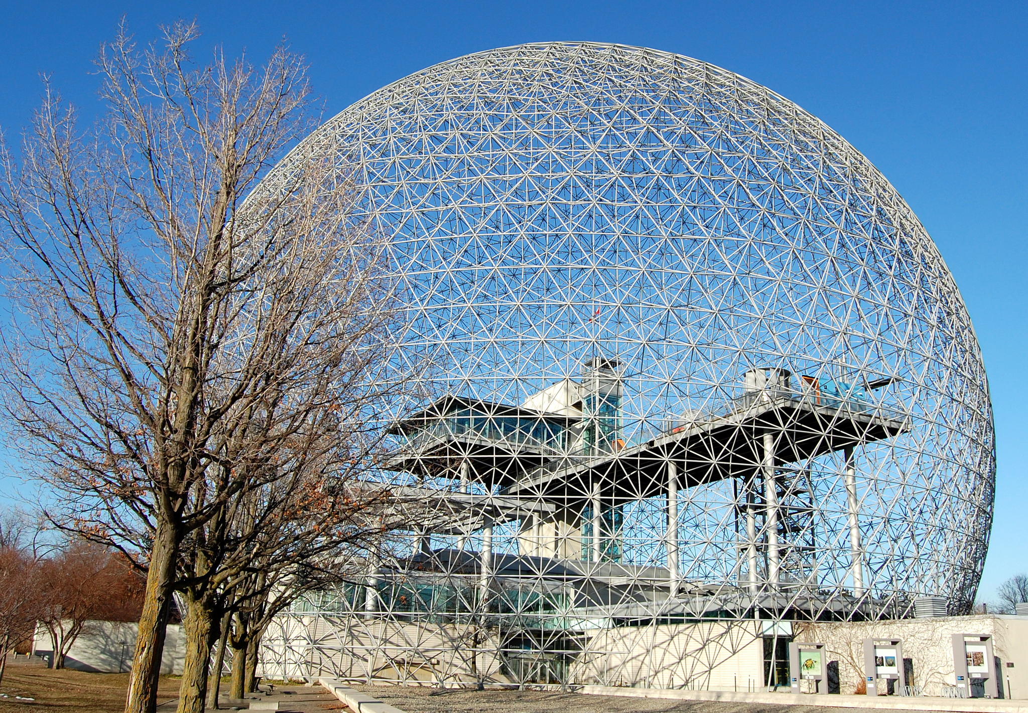 Parc Jean Drapeau - Biosphere